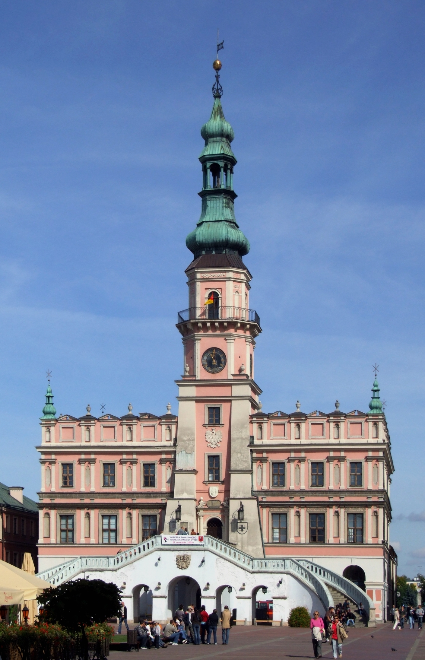 Town Hall in Zamość, Poland.